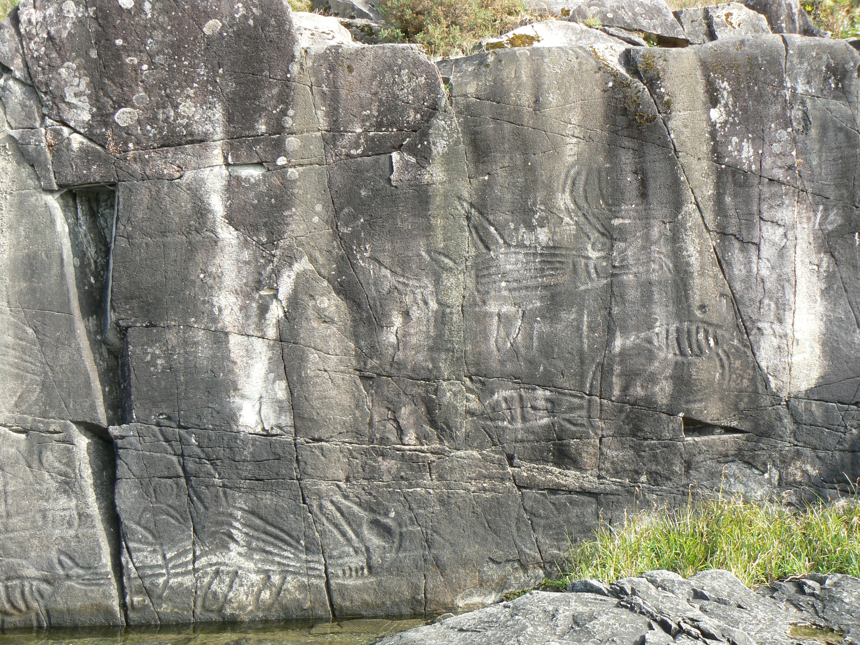 K’ak’awin Petroglyphs believed to be made by the Hupacasath people in Sproat Lake Provincial Park near Port Alberni, BC.